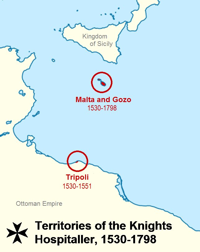 Map of territories of the Order of St. John, 1530-1798.Cropped and colored from File:Mediterranean Sea location map (blank).svg